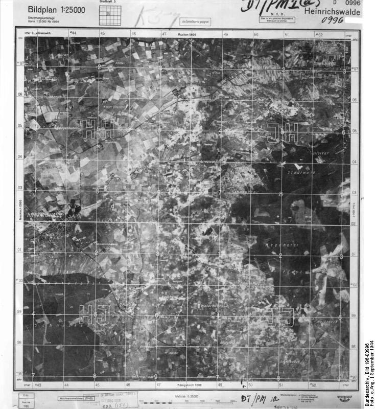 Heinrichswalde Information added by Wikimedia users.